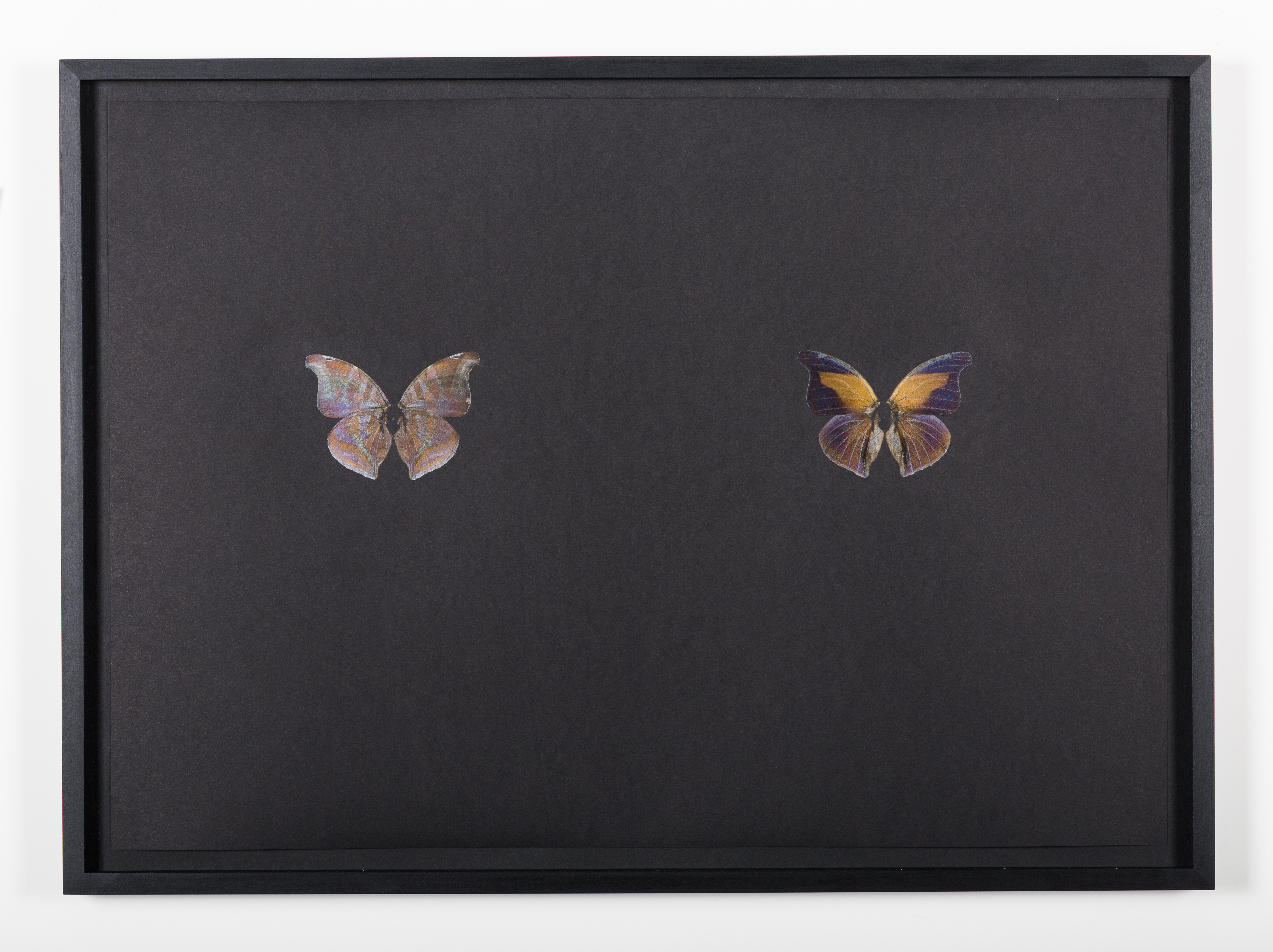 Black Butterflyprint 120, Butterfly scales on paper 2017 45,3x63cm